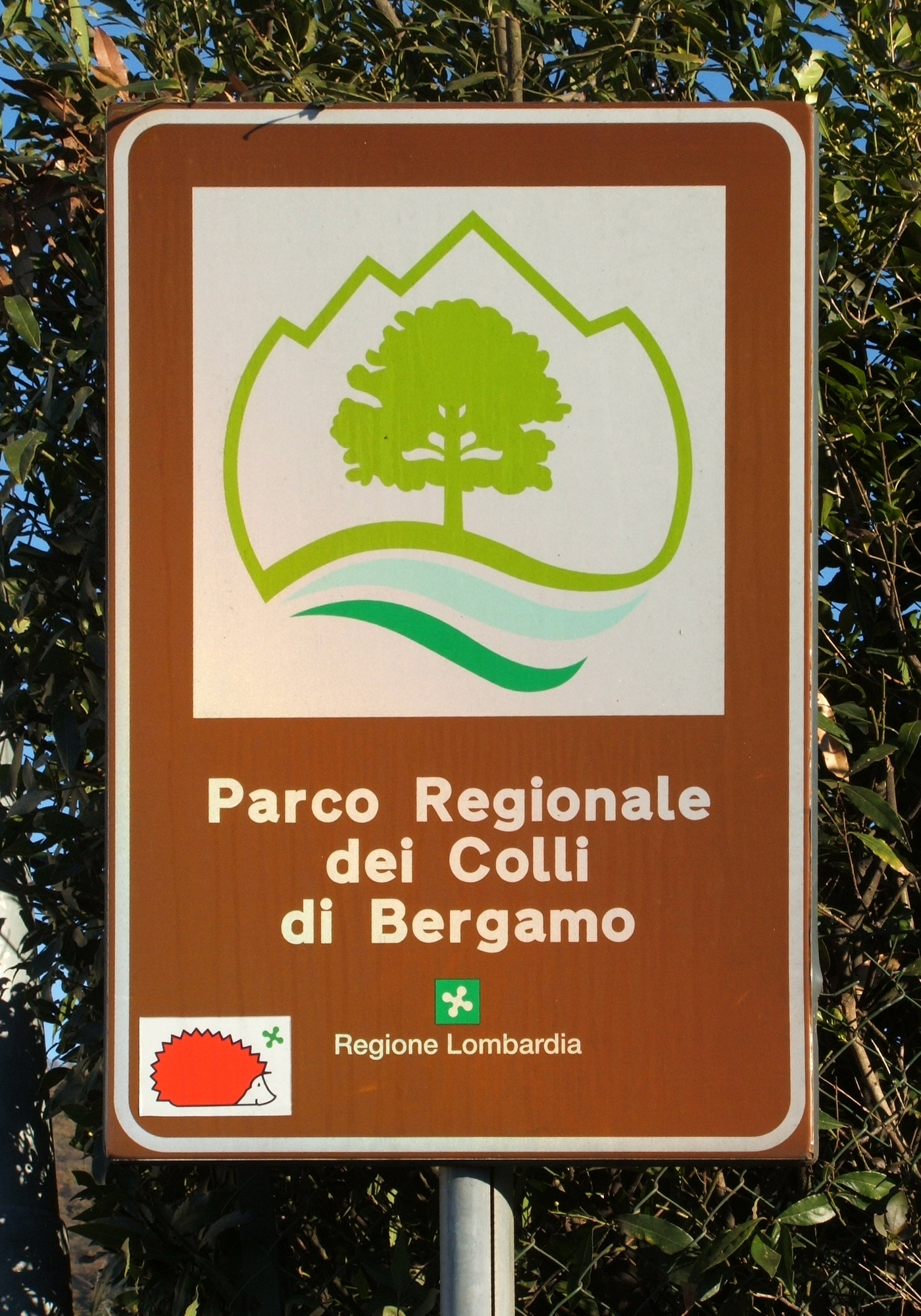 Border sign of Parco dei Colli (park of hills) of Bergamo, Lombardy, Italy